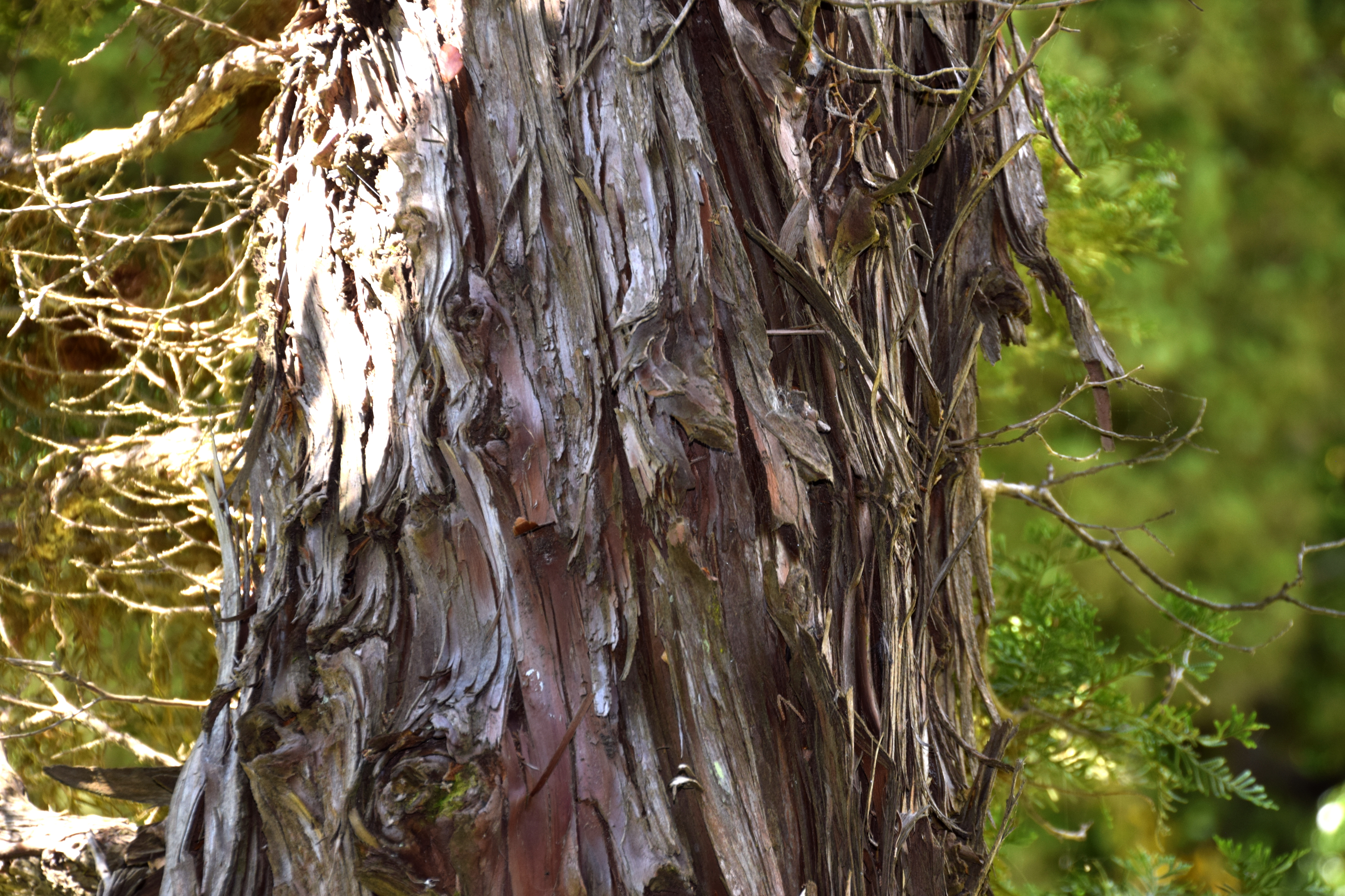 Libocedrus bidwillii in Christchurch Botanic Gardens in Christchurch, Canterbury Region, New Zealand